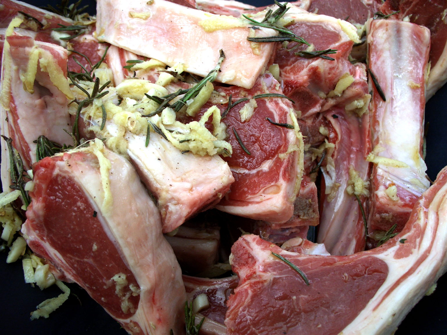 Lamb cutlets with shredded ginger, garlic and rosemary.